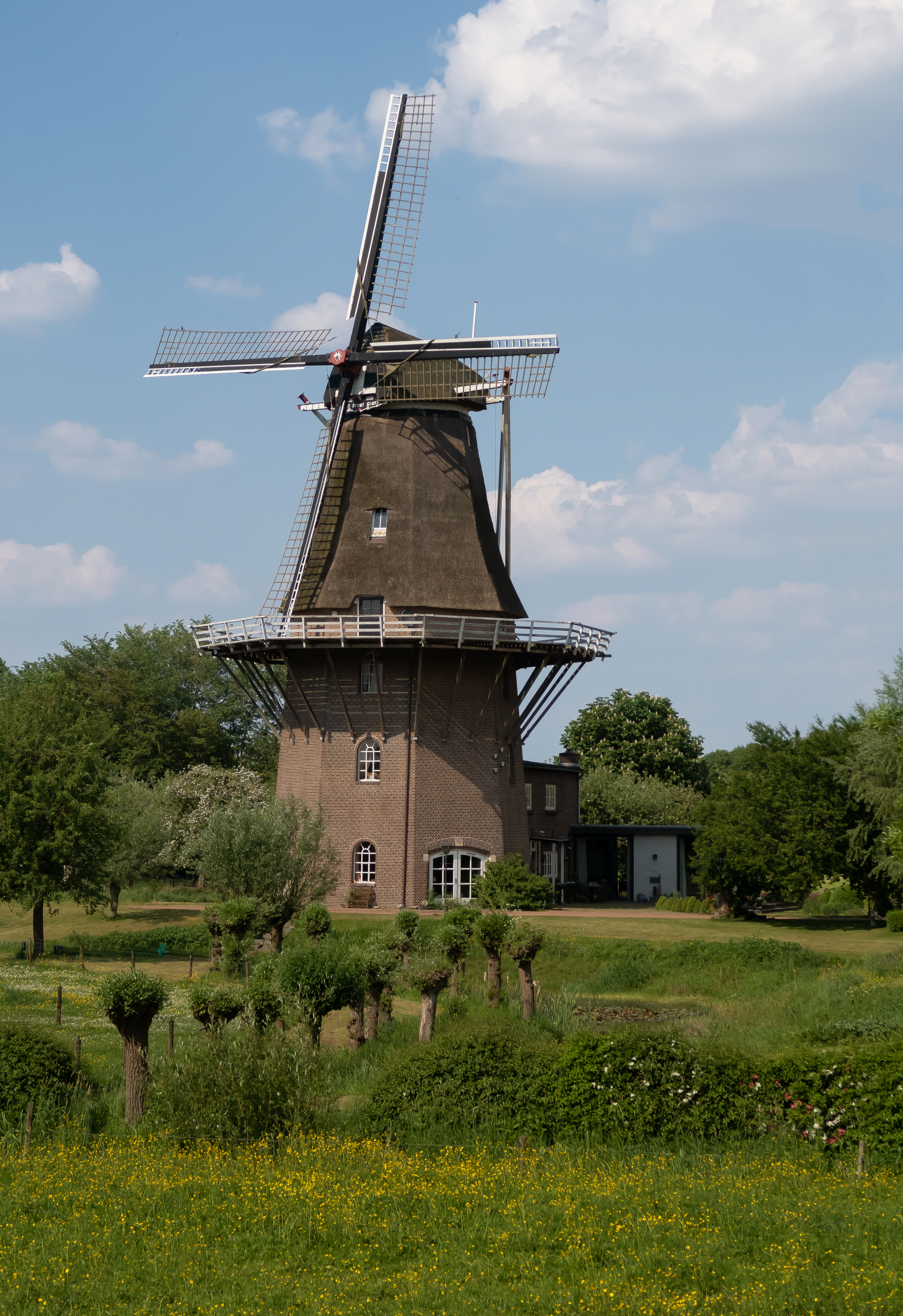 Welsum, windmill: korenmolen Houdt Braef Stant